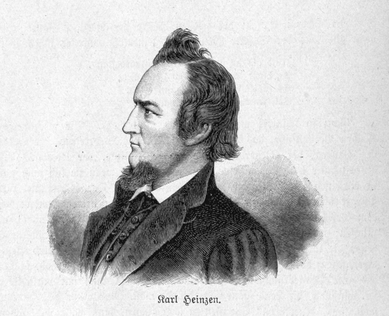 Image extracted from page 74 of Die deutsche Revolution. Geschichte der deutschen Bewegung von 1848 und 1849 ... Illustrirt, etc', by BLOS, Wilhelm. Original held and digitised by the British Library. Copied from Flickr. Note: The colours, contrast and appearance of these illustrations are unlikely to be true to life. They are derived from scanned images that have been enhanced for machine interpretation and have been altered from their originals.